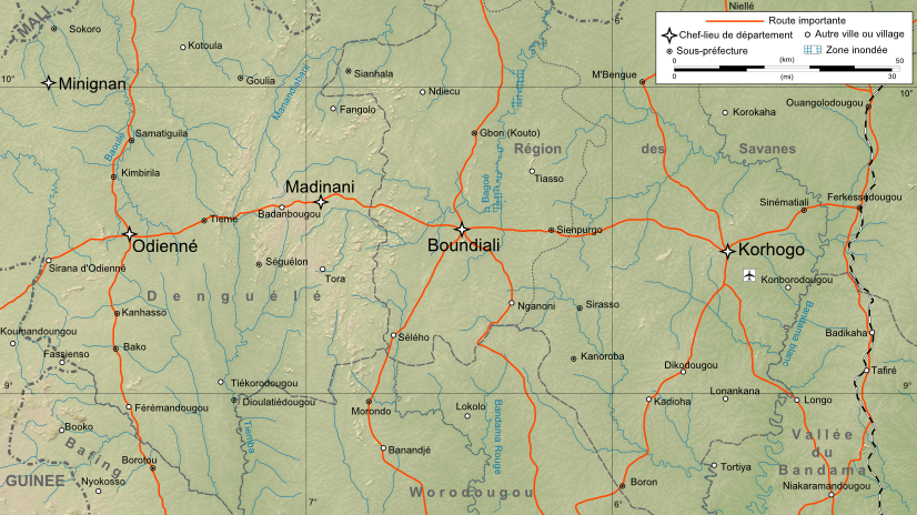 Map of Boundiali District in the Sahel sub-Saharan savanna region. Scale : 1:1,115,807 with part of Région des Savanes and Région Denguélé, in the north of Ivory Coast.